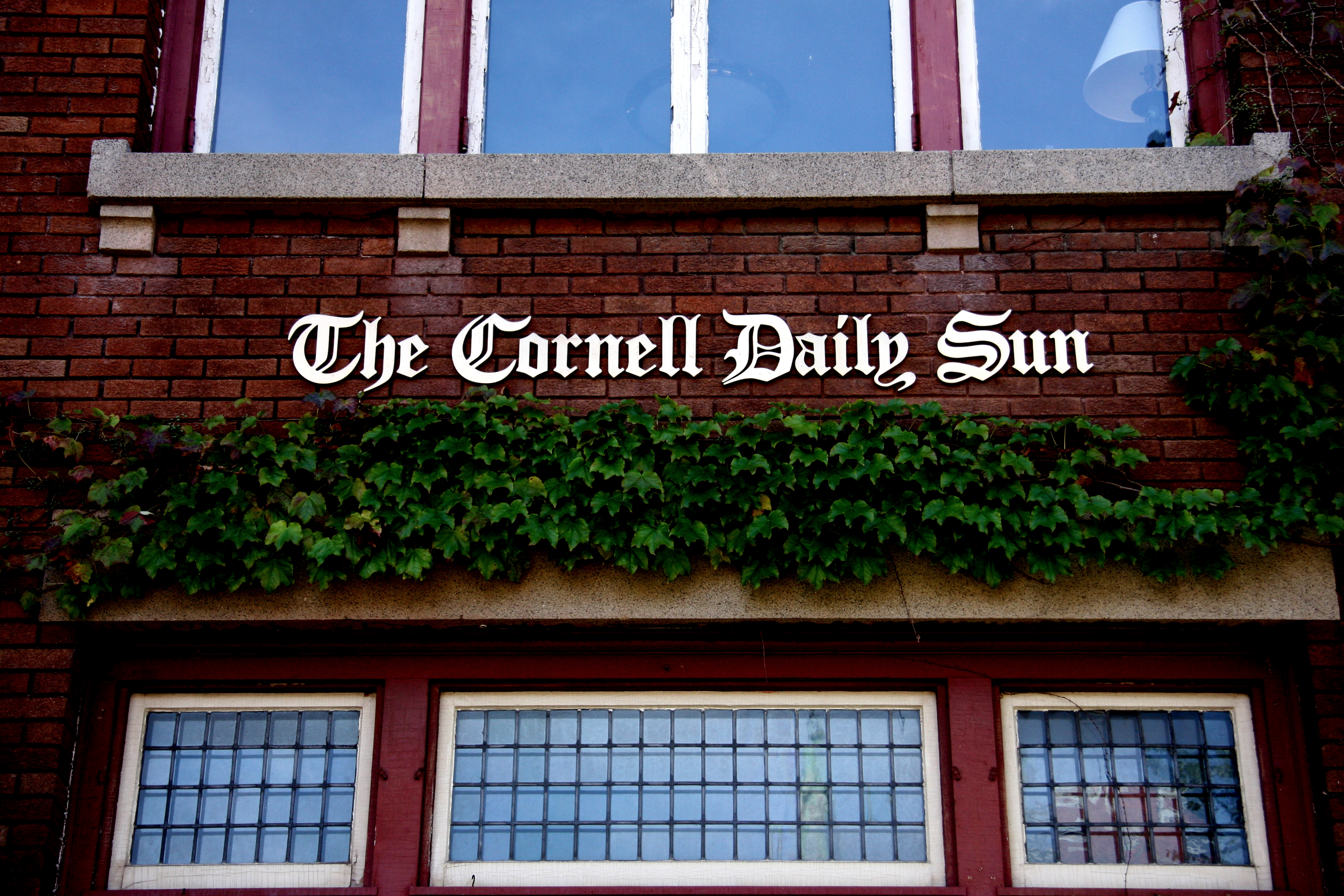 Building of The Cornell Daily Sun